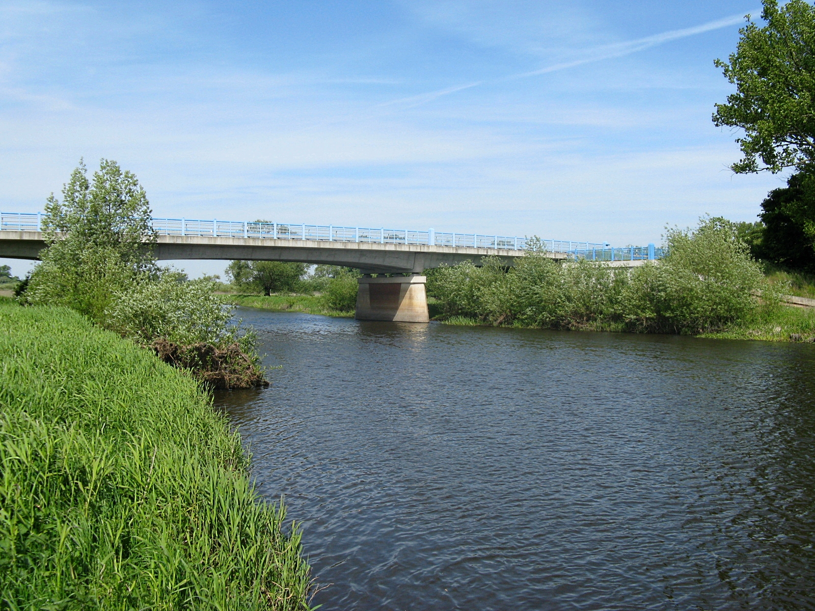 street brigde of federal road B 195 over the Sude river near Bandekow, district Ludwigslust, Mecklenburg-Vorpommern, Germany